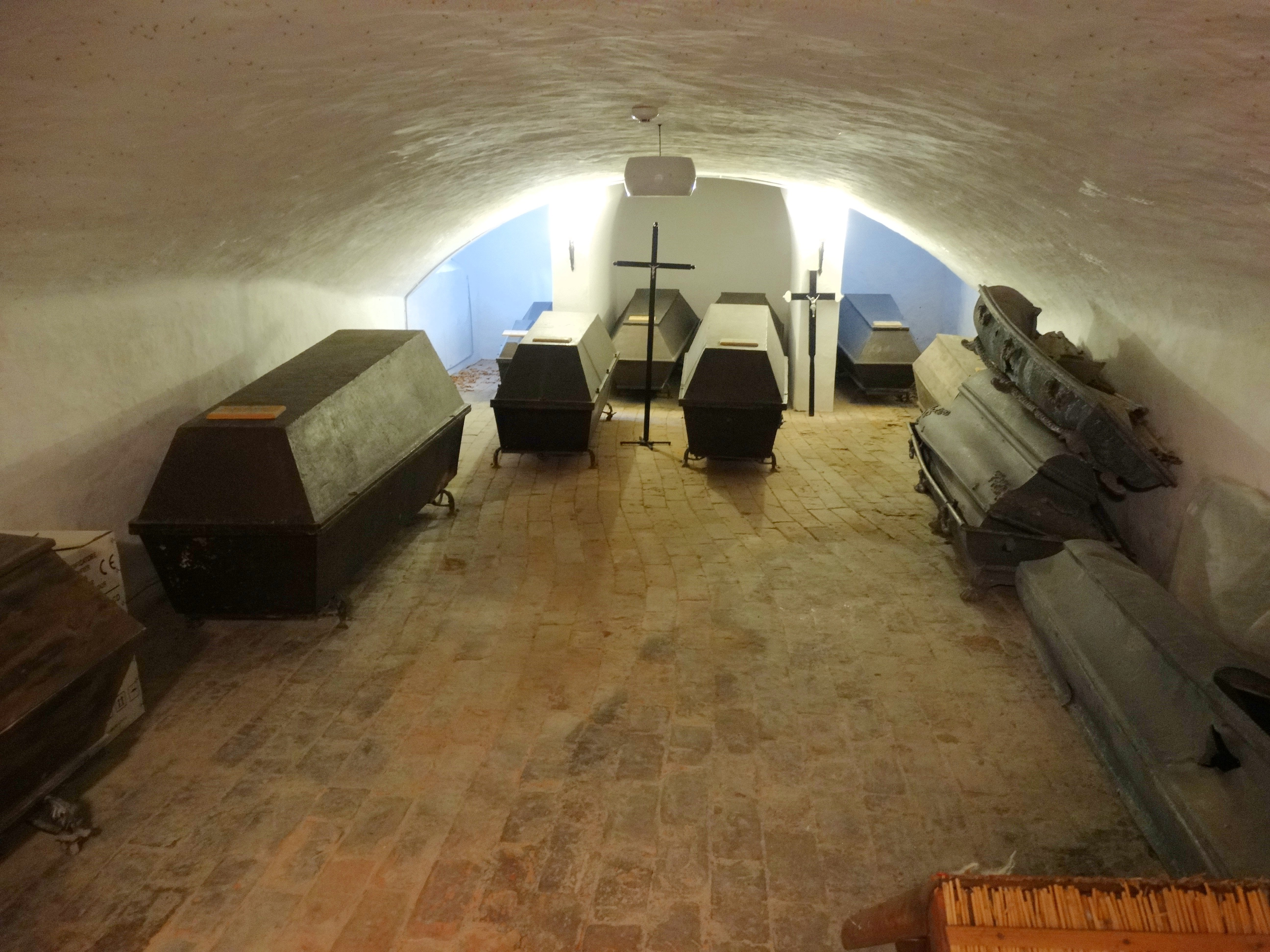 Tyszkiewicz family chapel crypt, Trakų Vokė, Vilnius, Lithuania